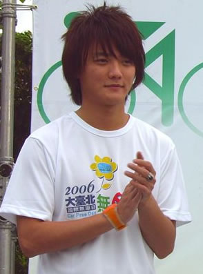 F.I.R. group member "Real" (Chinese "阿沁 A-Qin").